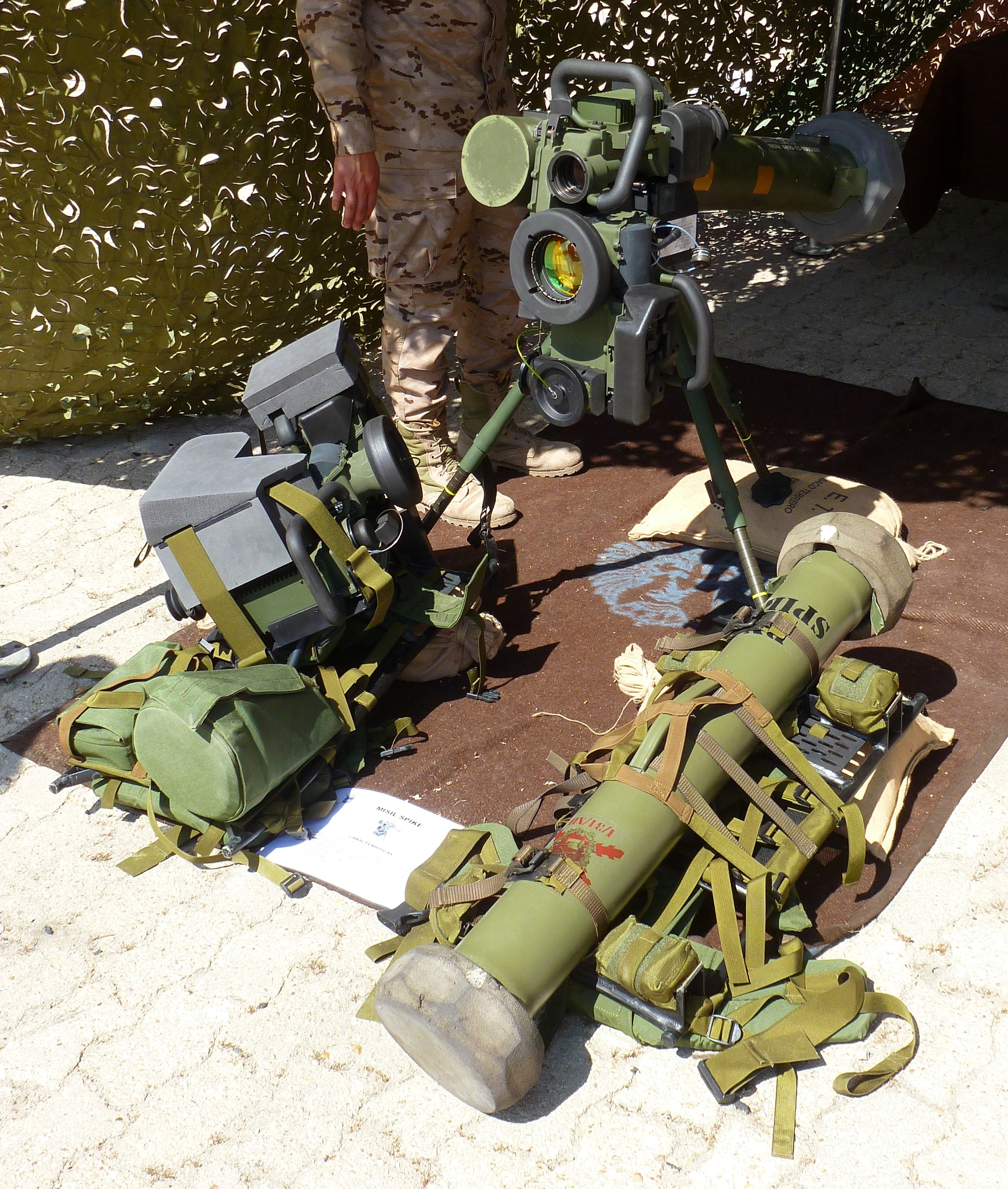 Spike LR of the Spanish Army.